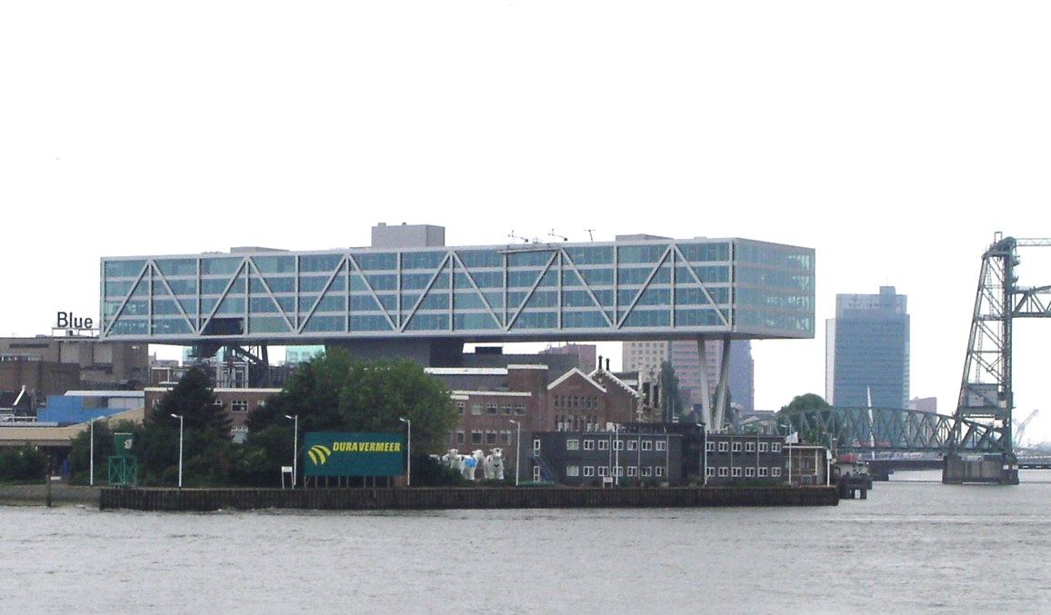 Head-office of "Unilever Nederland" in Rotterdam